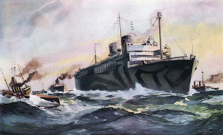 USS Siboney (ID # 2999) Letterpress reproduction of an artwork by Musician Loren C. Holmberg, USN, printed on page 5 of "Historical Souvenir of the U.S.S. Siboney", published by the ship's crew in 1919 as a momento of her service. Collection of Captain Clarence S. Williams, USN. Donated by Mrs. Clarence S. Williams, 1975.